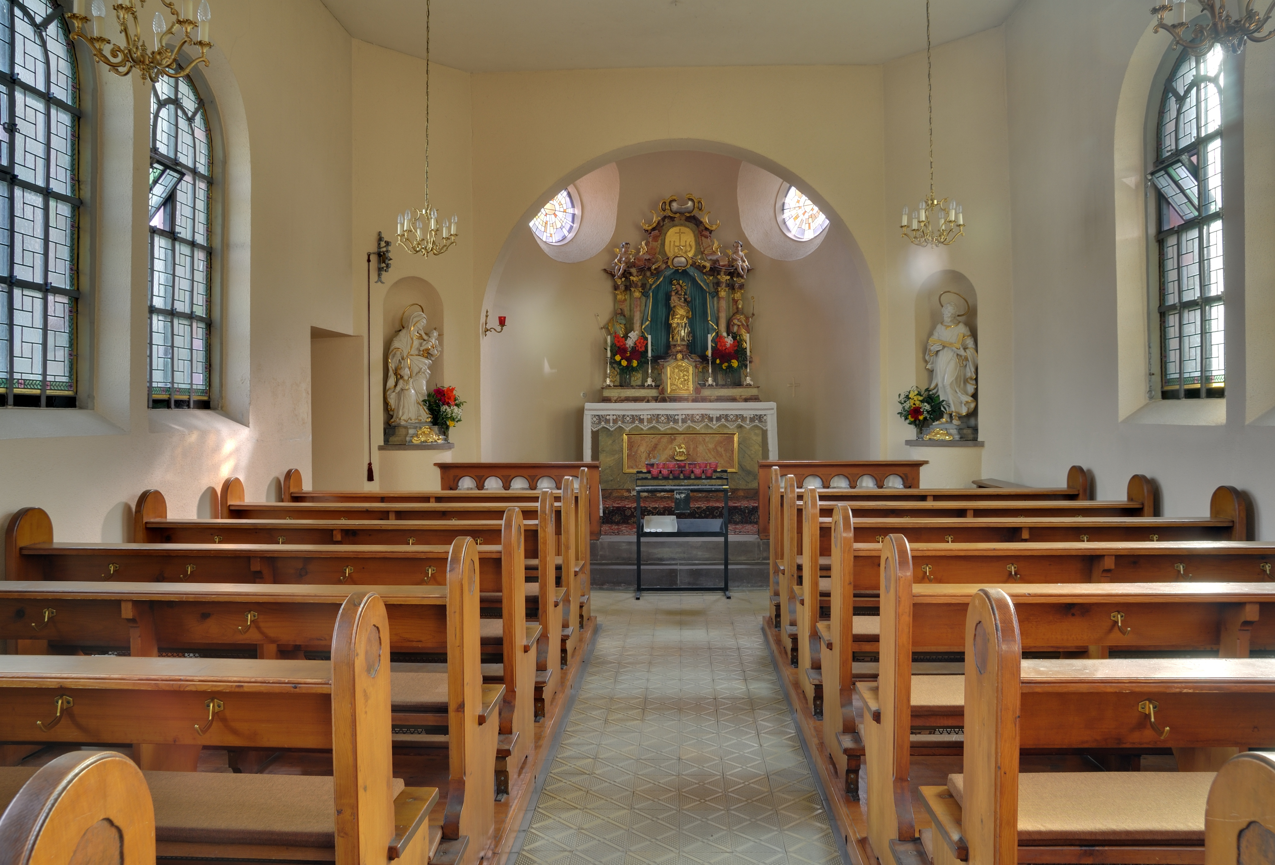 Aftersteg: Saint Anna Church